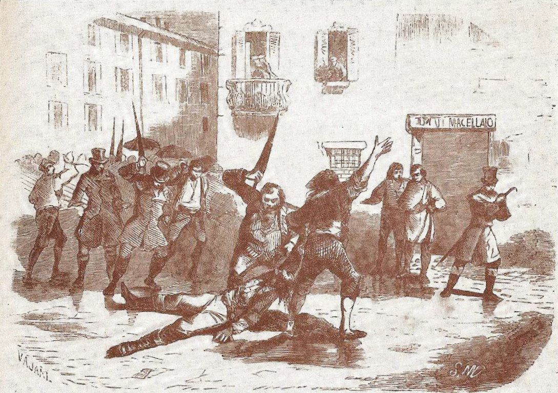 19th Century drawing reproduced in: Tommaso Grossi, Poesie milanesi. Raccolta completa , ed. by Severino Pagani, Milan: Ceschina, 1961